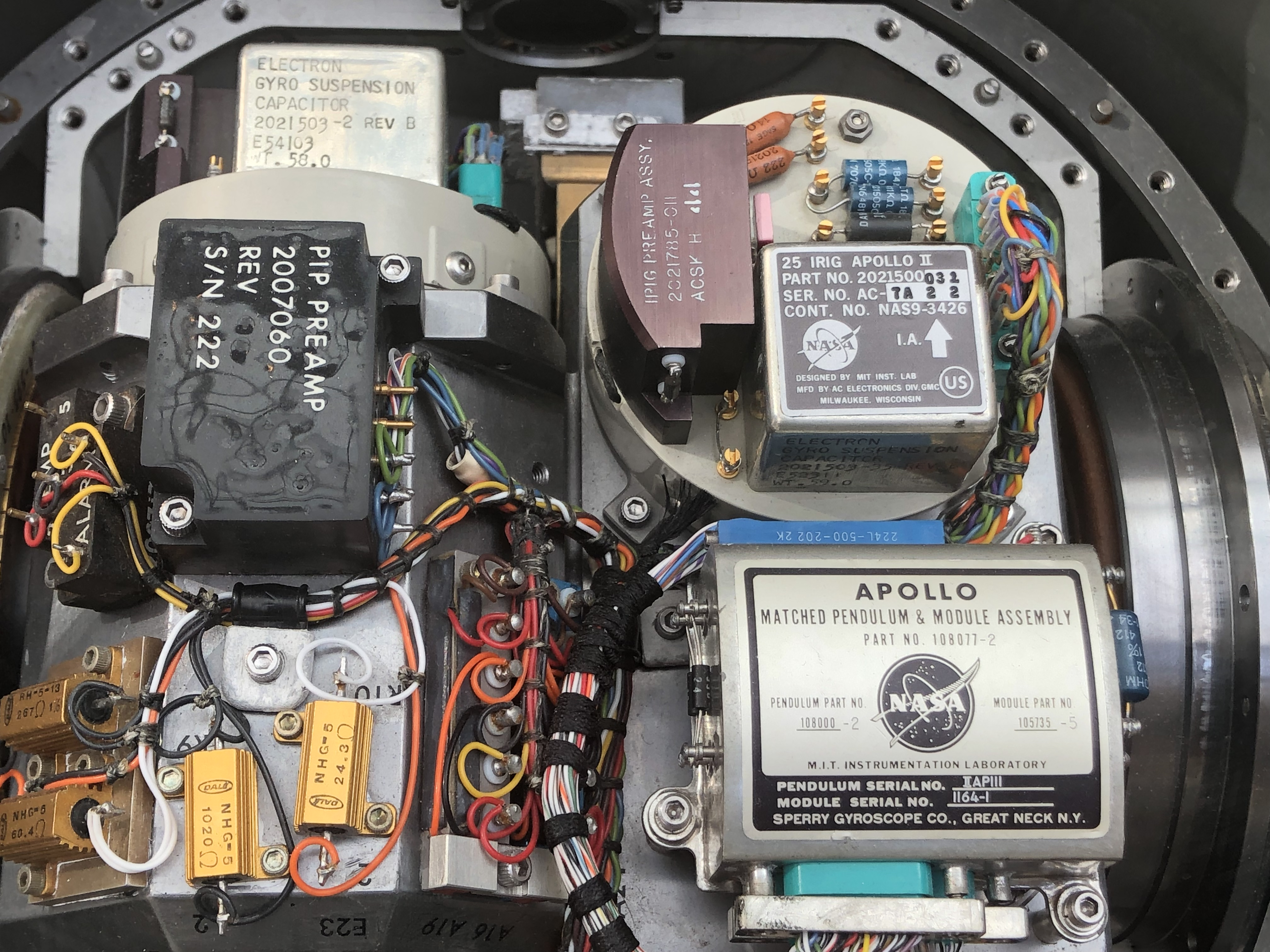 Apollo program related object on display at the Draper Labs 2019 "Hack the Moon" exhibit, held in Cambridge, Massachusetts, in honor of the 50th anniversary of the Apollo 11 moon landing.